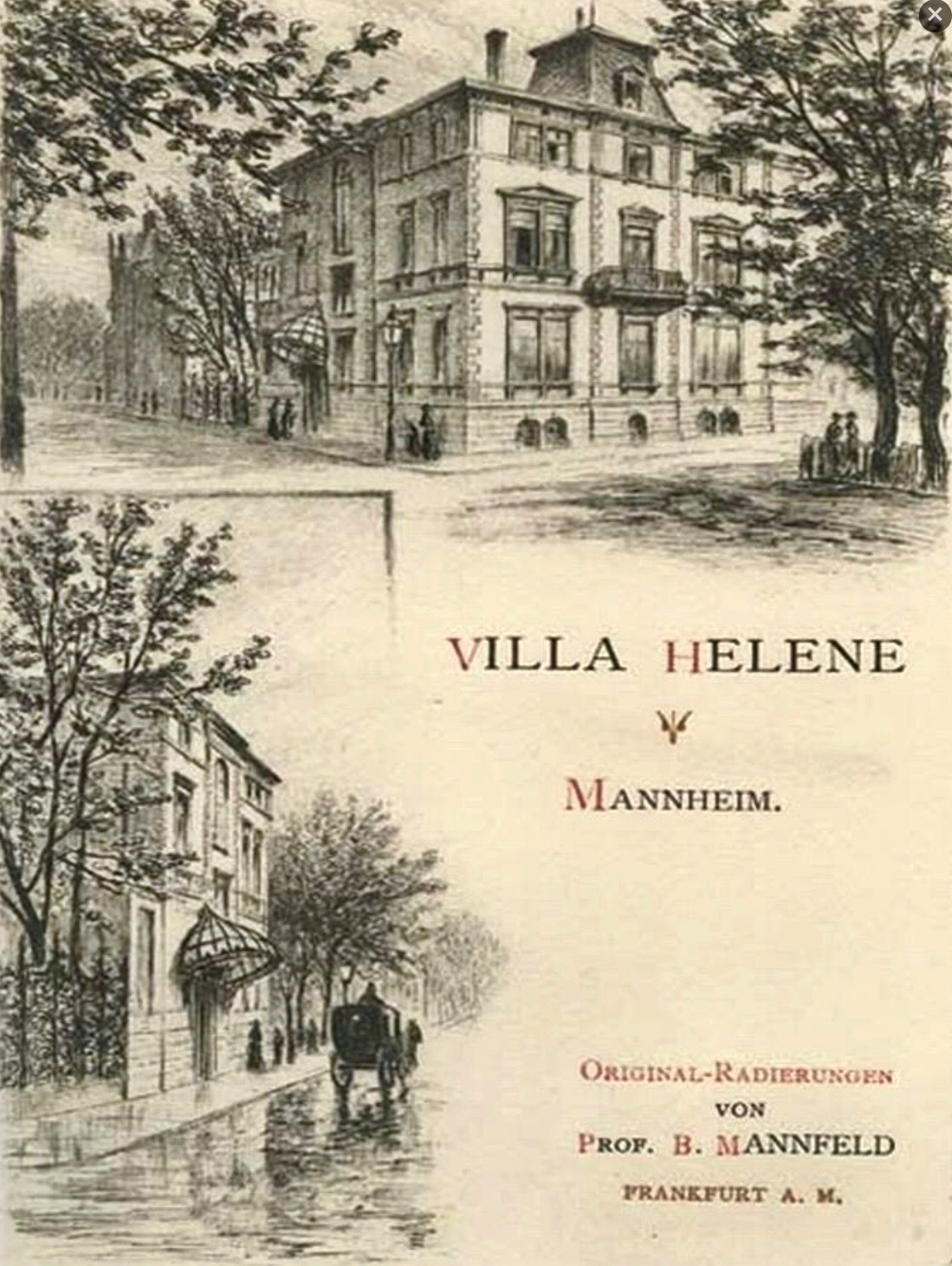 Invitation card for an exhibition at Villa Helene (today: Villa Hecht) in Mannheim, Germany. The etchings shown are made by artist Bernhard Mannfeld (1848–1925).